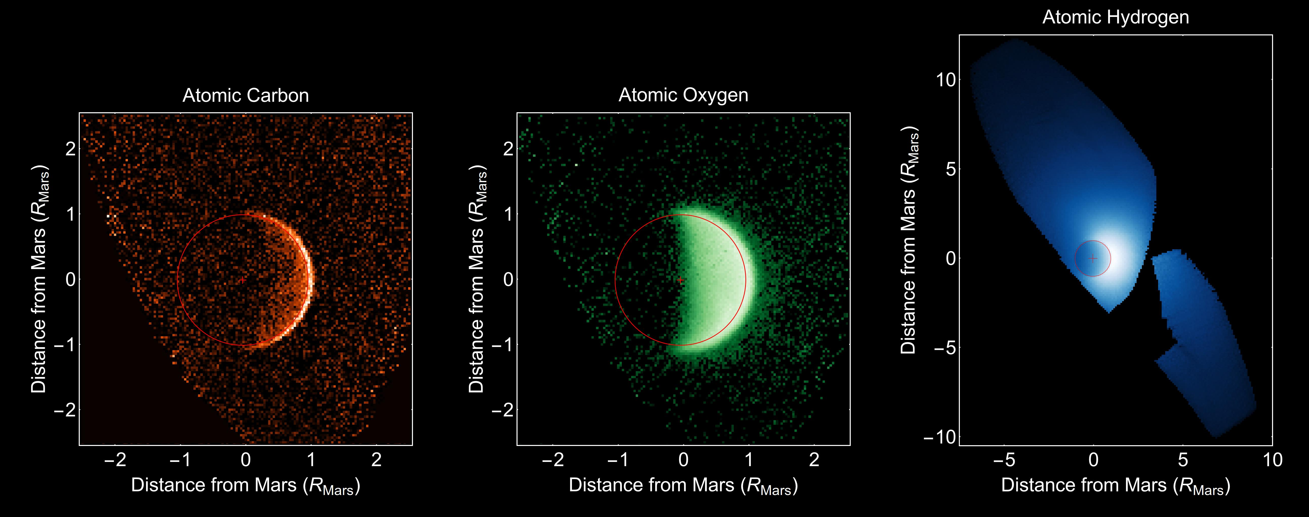 Ultraviolet views of Martian atmosphere escaping Three views of an escaping atmosphere, obtained by MAVEN's Imaging Ultraviolet Spectrograph, are shown here. By observing all of the products of water and carbon dioxide breakdown, MAVEN's remote sensing team can characterize the processes that drive atmospheric loss on Mars. These processes may have transformed the planet from an early Earthlike climate to the cold and dry climate of today. MAVEN is NASA's Mars Atmosphere and Volatile Evolution (MAVEN) spacecraft. NASA Goddard Space Flight Center in Greenbelt, Md., manages the MAVEN project for NASA's Science Mission Directorate, Washington, and built some of the science instruments for the mission. MAVEN's principal investigator is based at the University of Colorado's Laboratory for Atmospheric and Space Physics in Boulder. The university provided science instruments and leads science operations, as well as education and public outreach, for the mission. Lockheed Martin Space Systems, Denver, built and operates the spacecraft. The University of California at Berkeley's Space Sciences Laboratory provided instruments for the mission. JPL, a division of the California Institute of Technology in Pasadena, provides navigation support and Deep Space Network support, NASA's Jet Propulsion Laboratory in Pasadena, California, provides navigation and Deep Space Network support, as well as the Electra telecommunications relay hardware and operations. For more information about MAVEN, visit and For more information about NASA's Mars Exploration Program